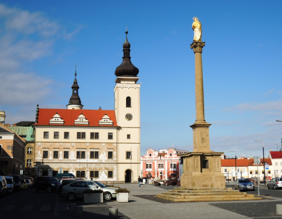 Mladá Boleslav Old Town square, Old Town Hall, Marian column